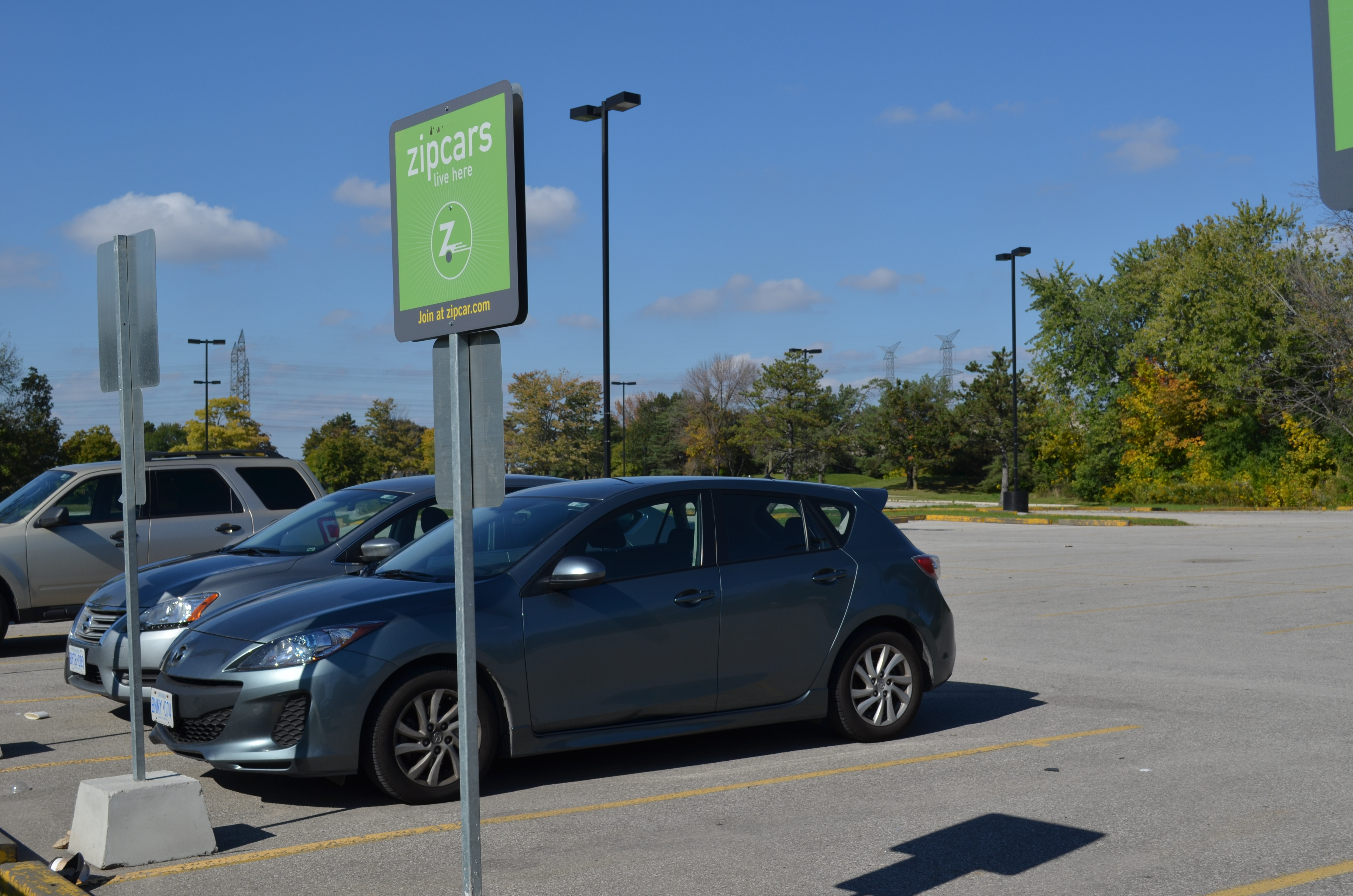 York Zipcars